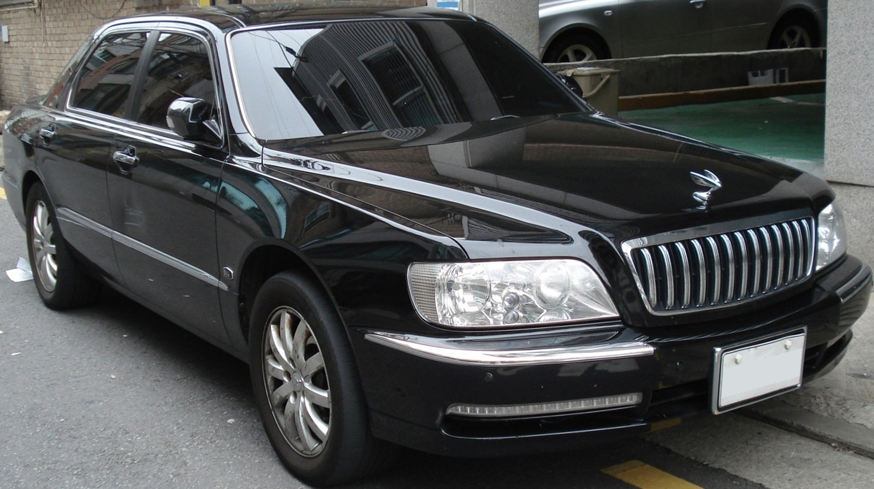 Hyundai Equus